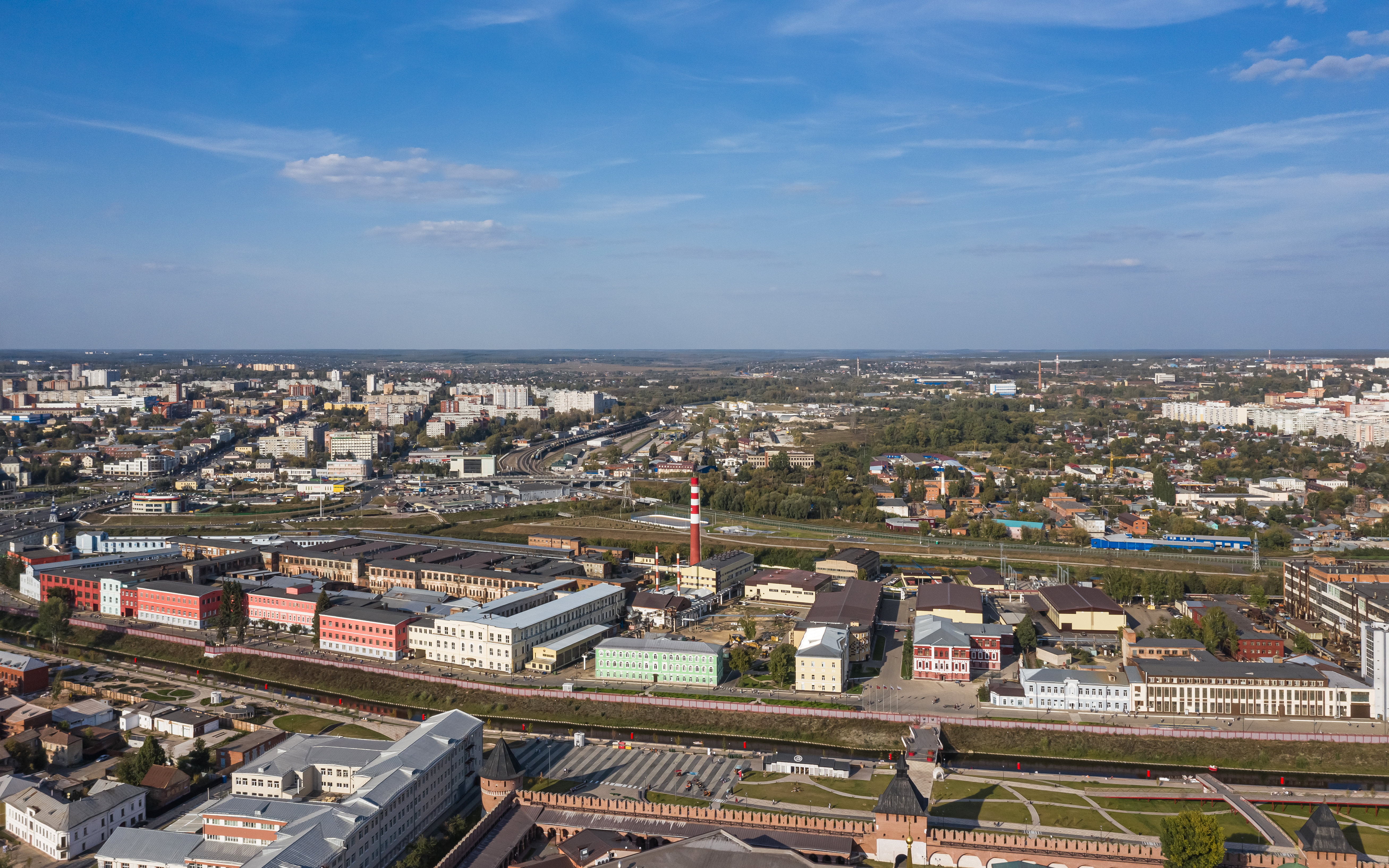 Aerial photo of the Arms Plant (TOZ) in Tula, Russia